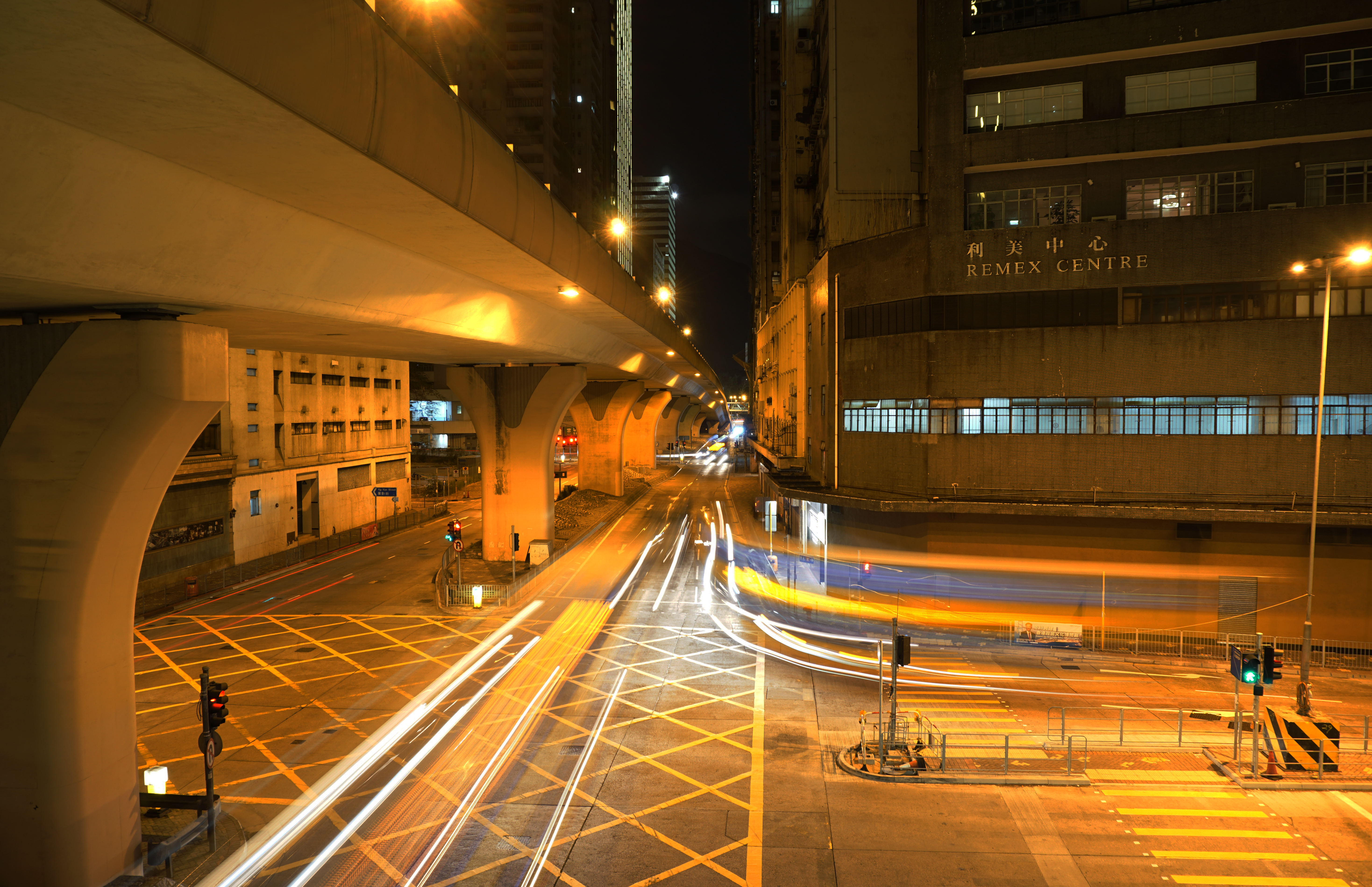 Wong Chuk Hang Road in Wong Chuk Hang, Hong Kong.